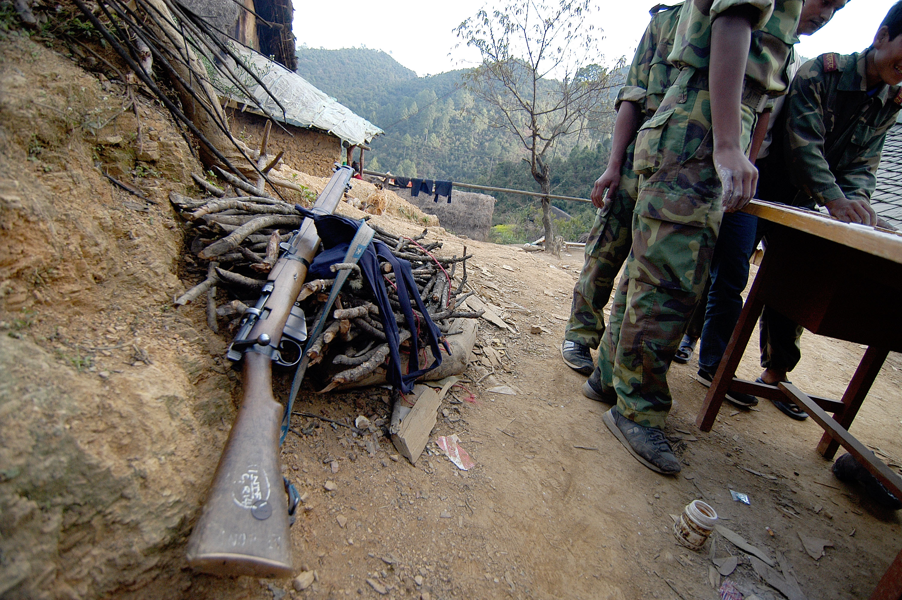 A WWII British Lee Enfield .303" rifle is left unattended near a group of Maoist rebels in the Rolpa district (Nepal), during a ceasefire